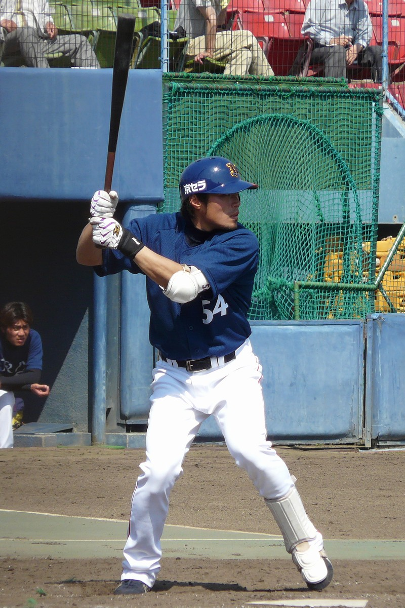 Ikki Shimamura, infielder of the Orix Buffaloes, at Nagoya Baseball Stadium.